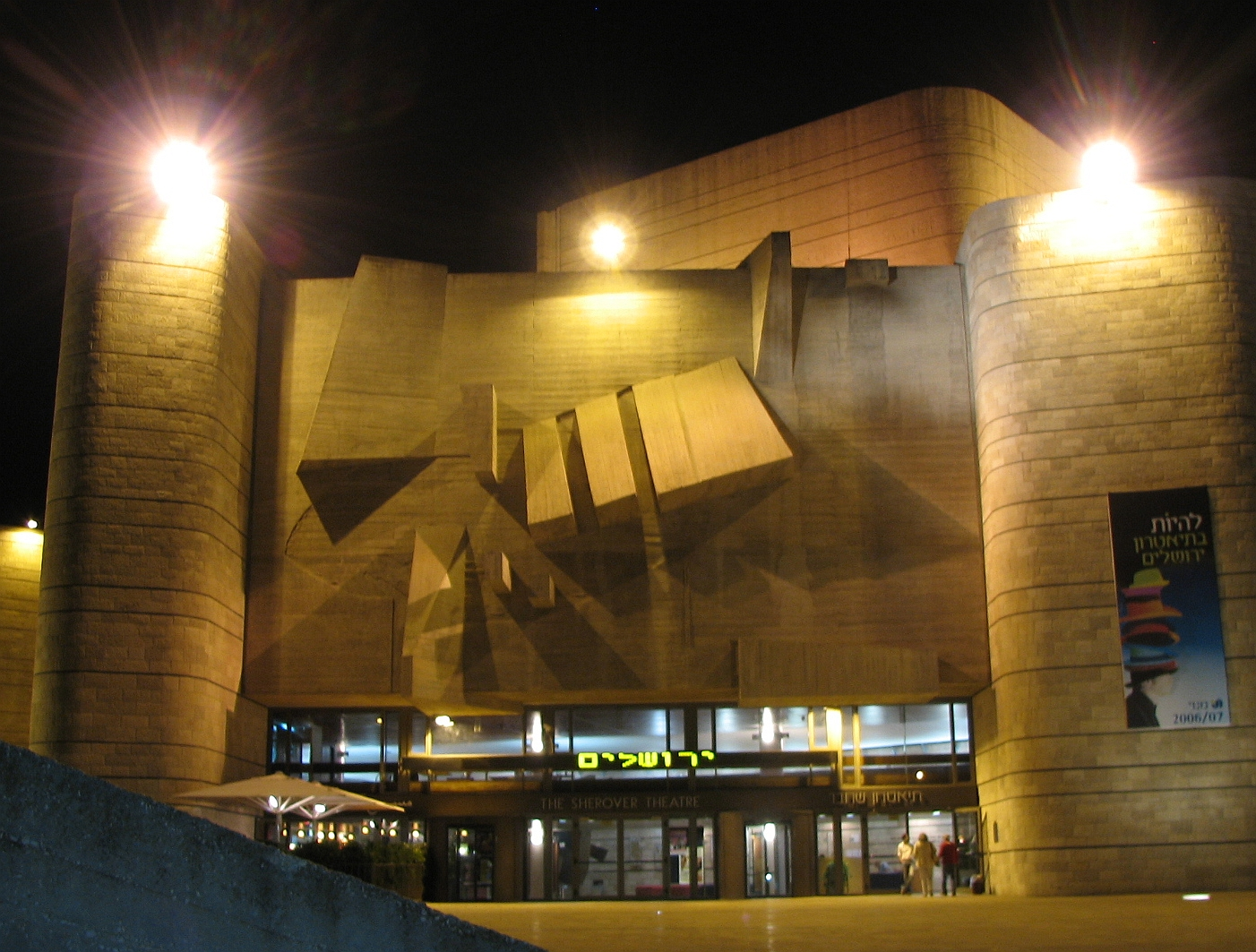 The Jerusalem Theater at night.